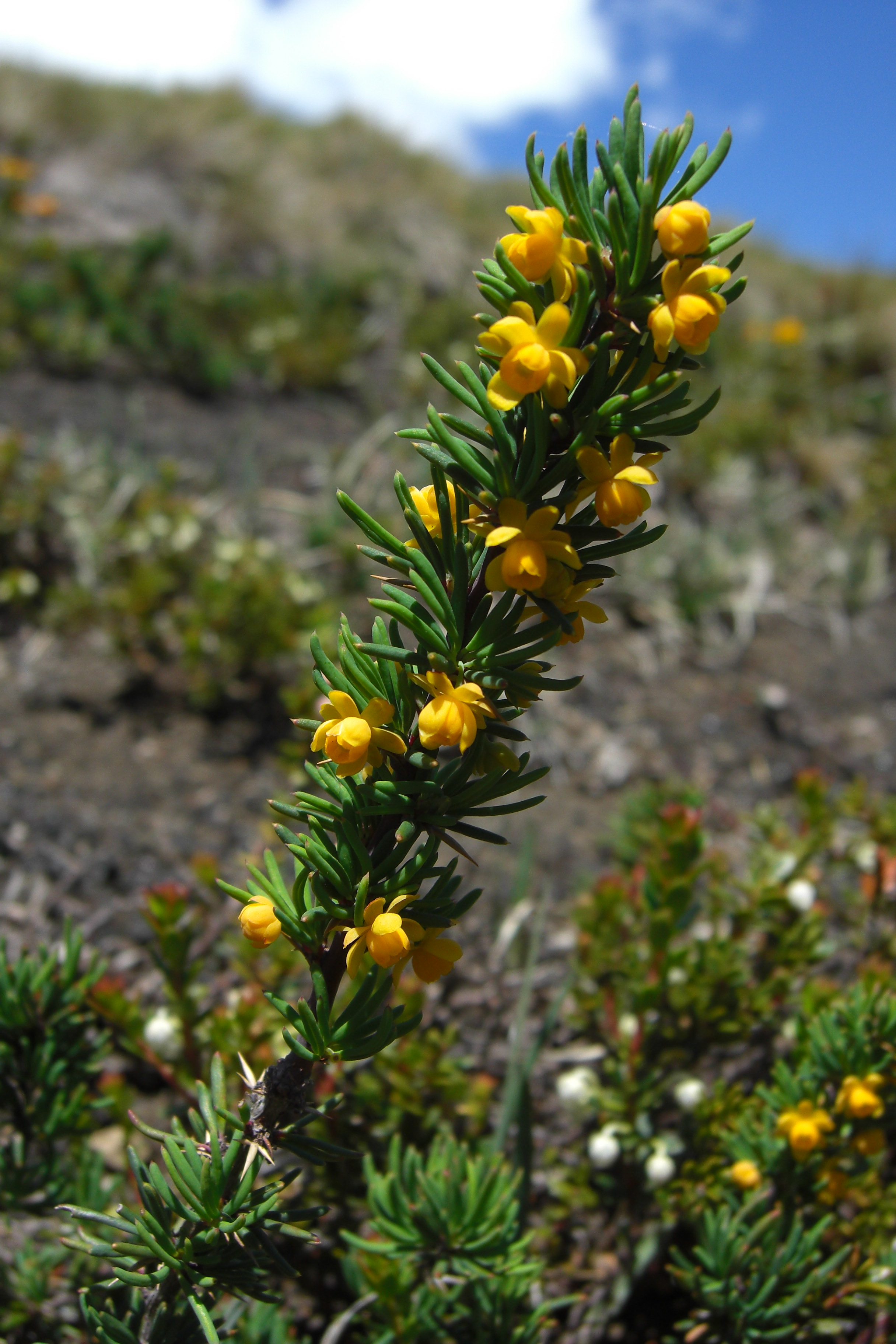 Berberis empetrifolia Lam. 20081211 Volcan Quetrupillan, Chile alpine slopes This species is distguished by its relatively small flowers, and strictly entire, linear leaves, about 1 cm long and strongly apiculate. It can be found throughout southern Chile up to 30°S.